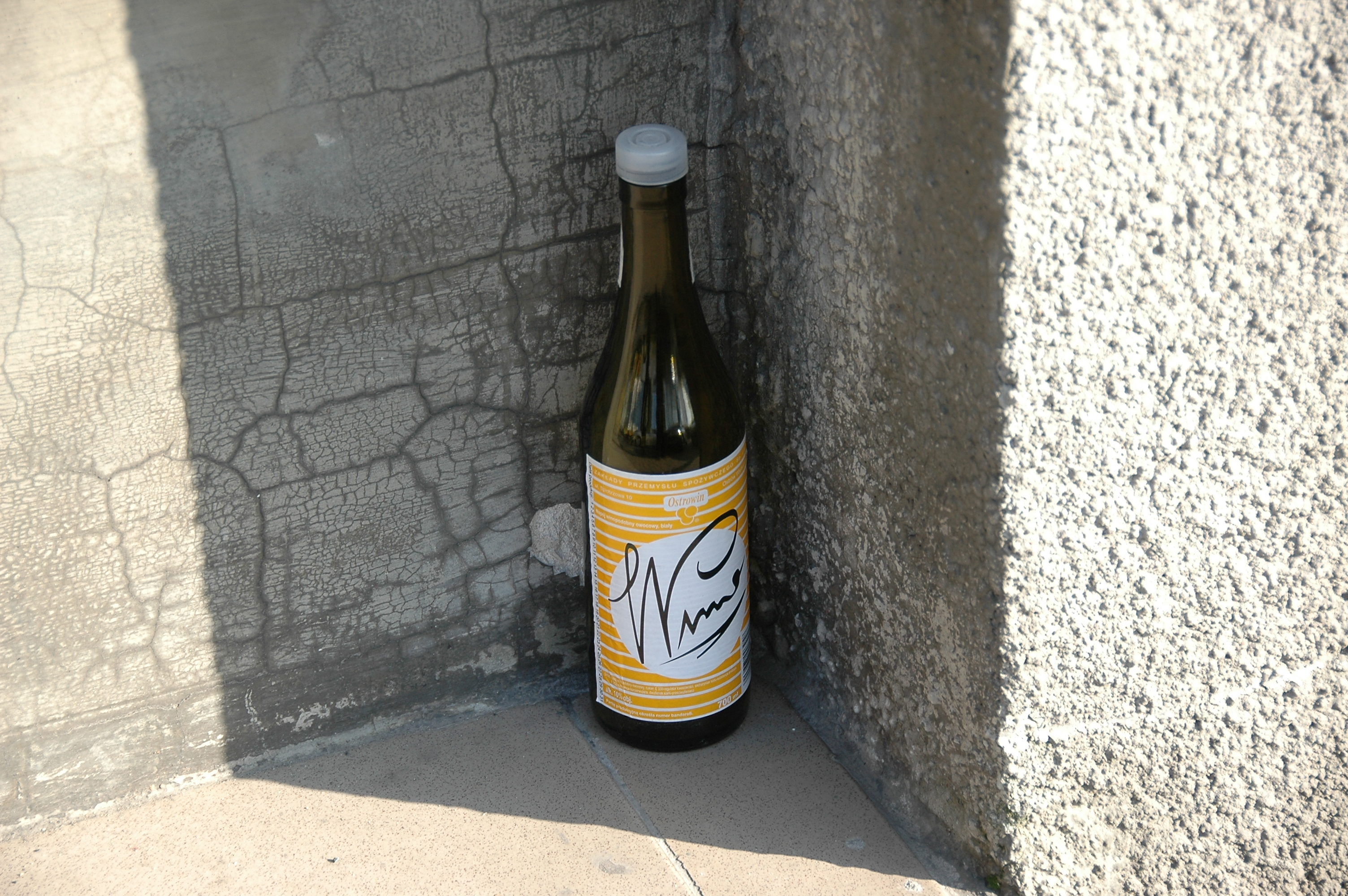 Polish cheap wine.